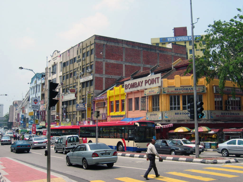 mine